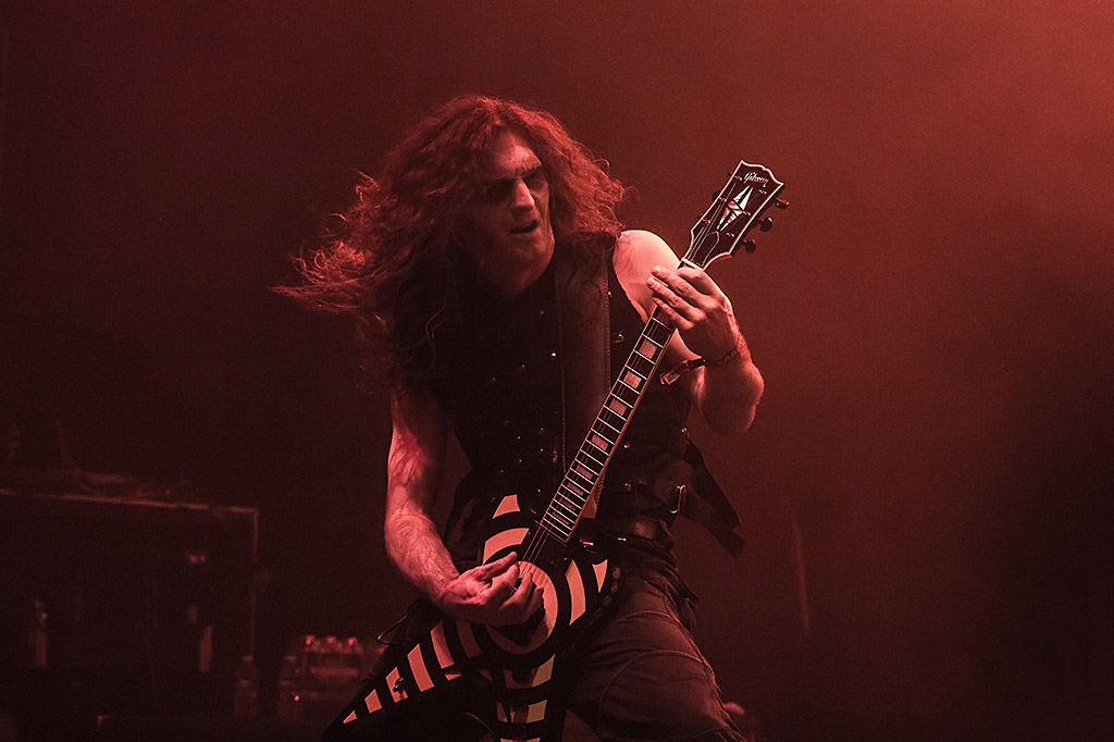 Powerwolf - 15.12.2012 - Knock Out, Karlsruhe